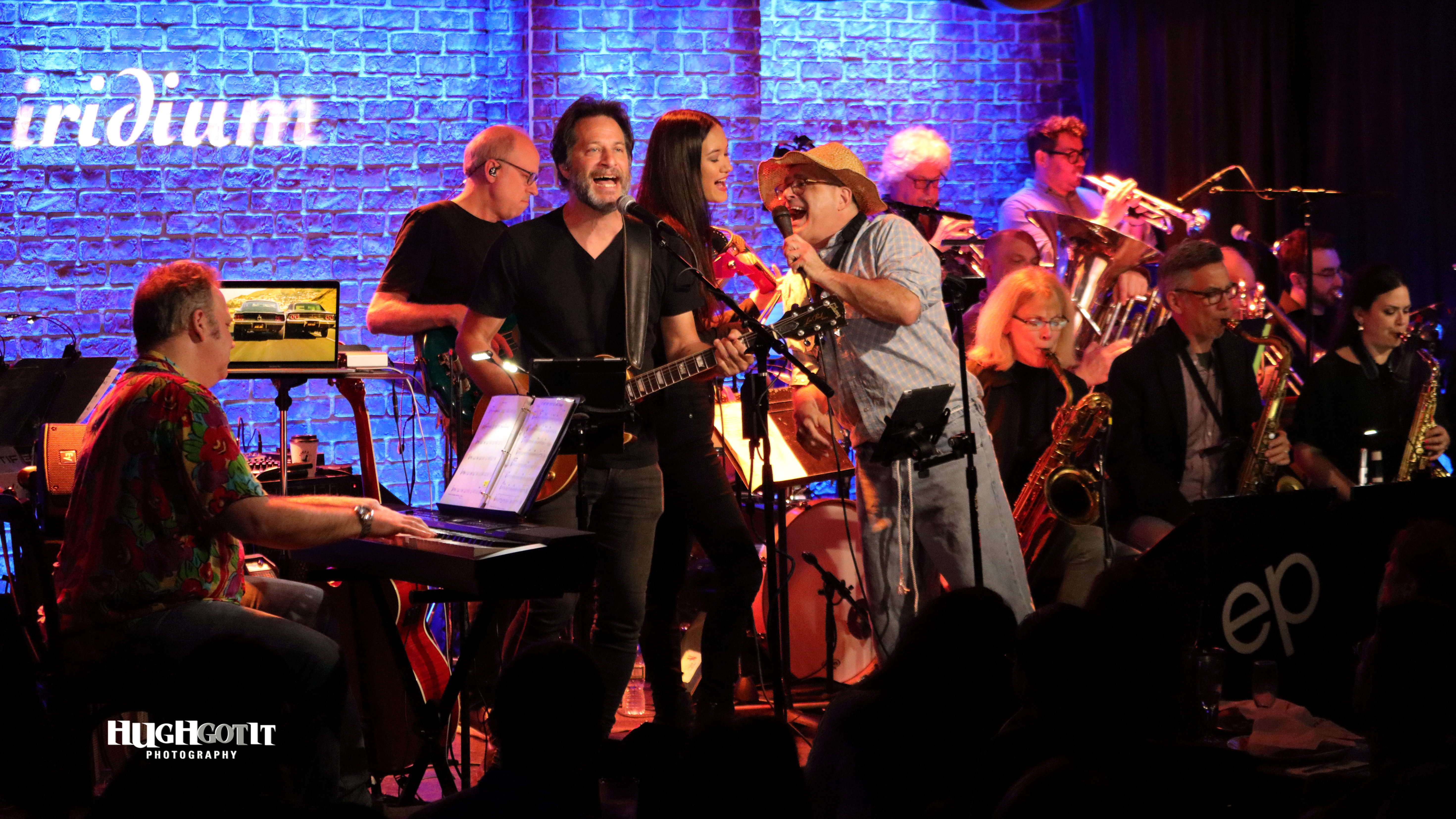 Live at Iridium